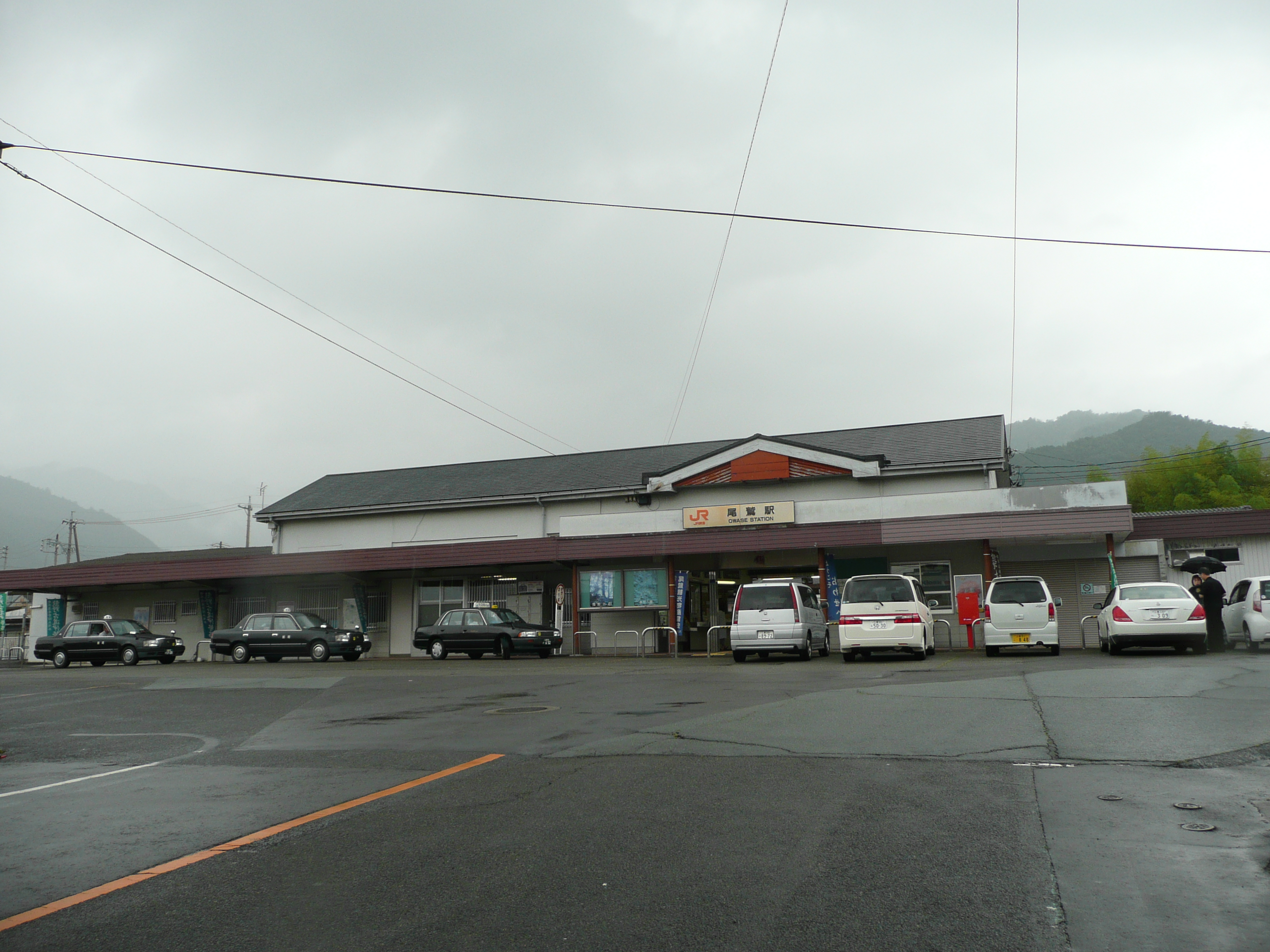 Owase Station building